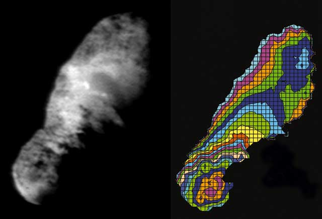 Comet Borrelly as imaged by Deep Space 1. The image revealed no surface ice.